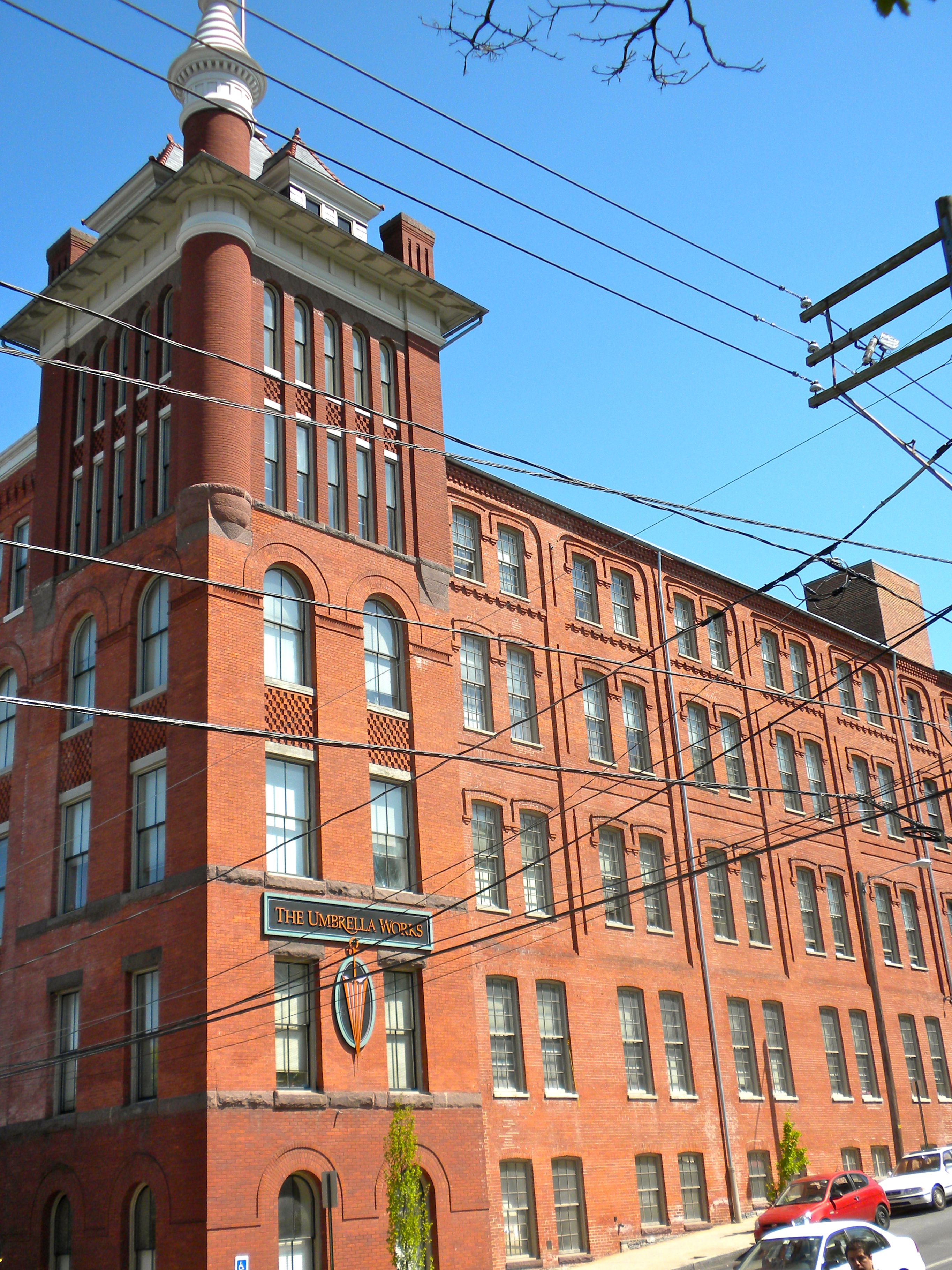 Follmer, Clogg and Company Umbrella Factory on NRHP since August 21, 1986. At 254–260 West King Street, Lancaster, Pennsylvania, just west of downtown. Kitty corner to Henry Krauskap House also on NRHP.